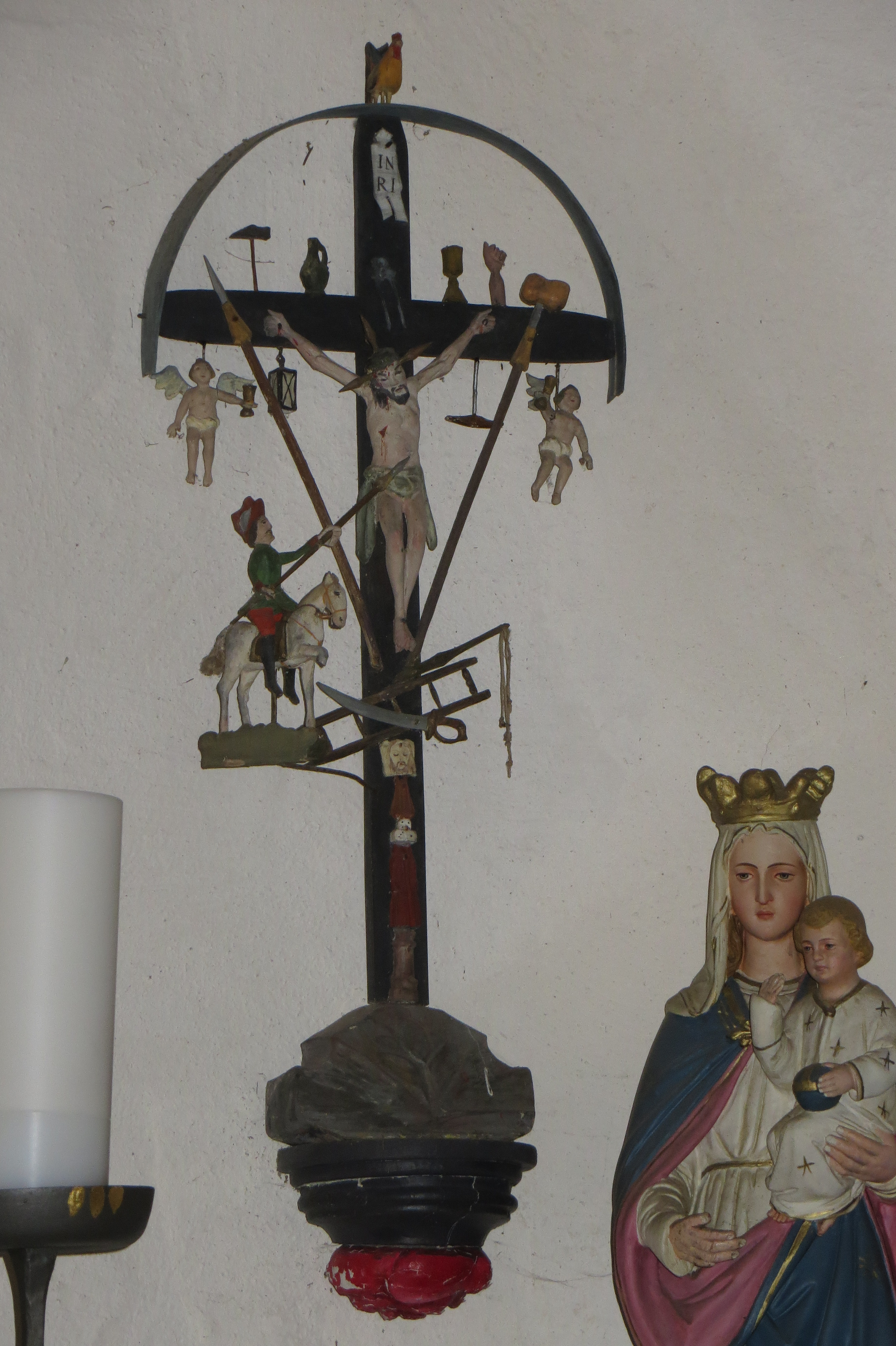 A Longinus Cross in St Martin's Chapel, nr Schönwald im Schwarzwald, Germany